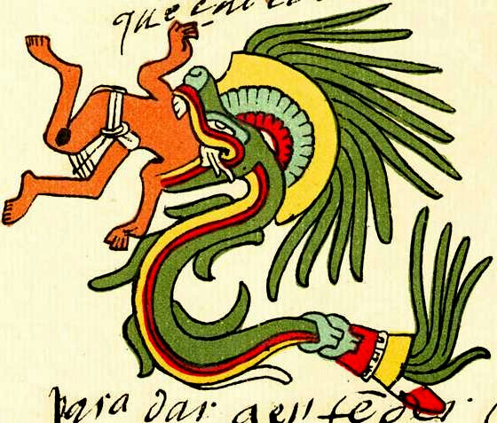 Quetzalcoatl in the Codex Telleriano-Remensis (16th century). Azteca Quetzalcoatl codex